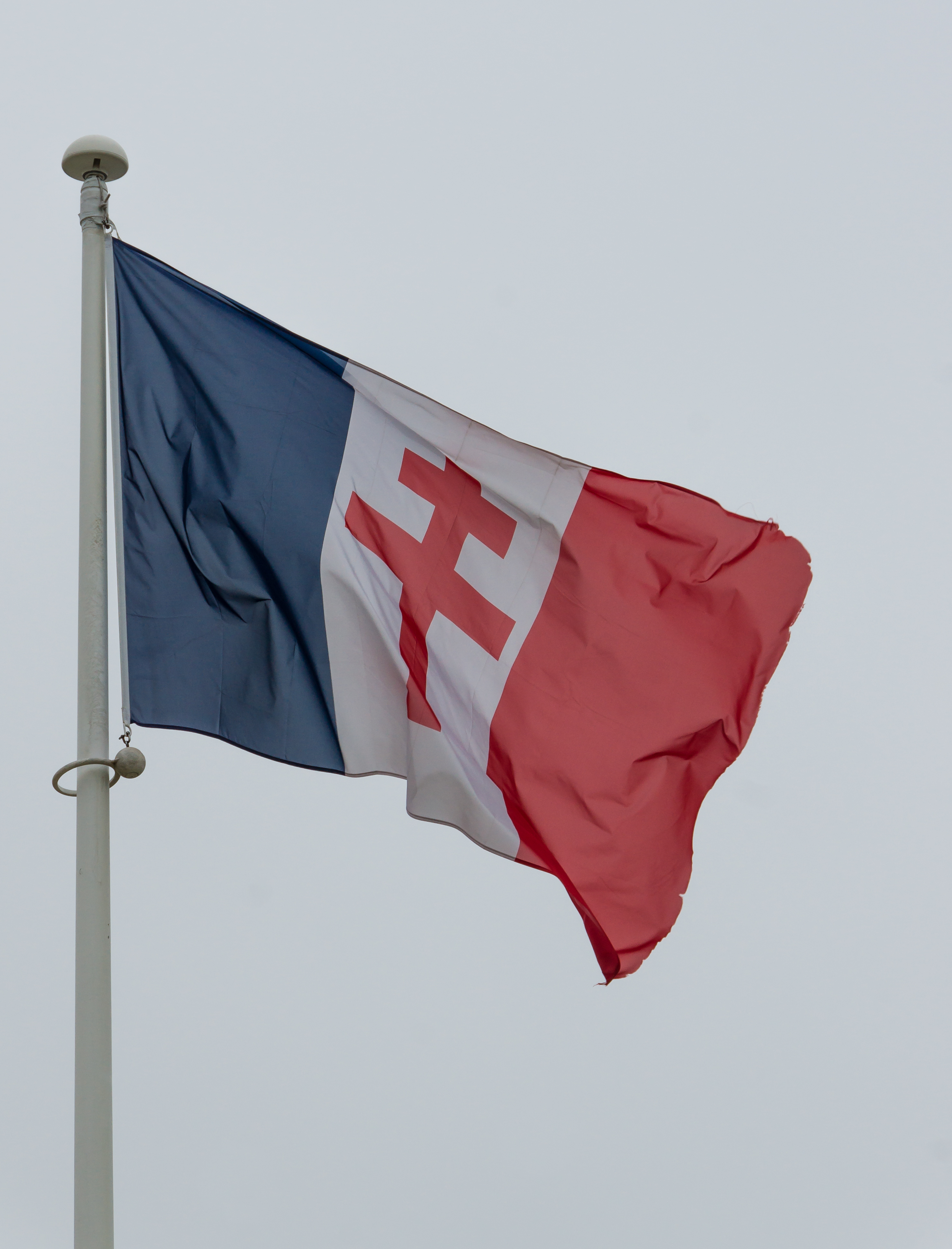 Free France flag, Graye-sur-Mer, Calvados, Normandy, France